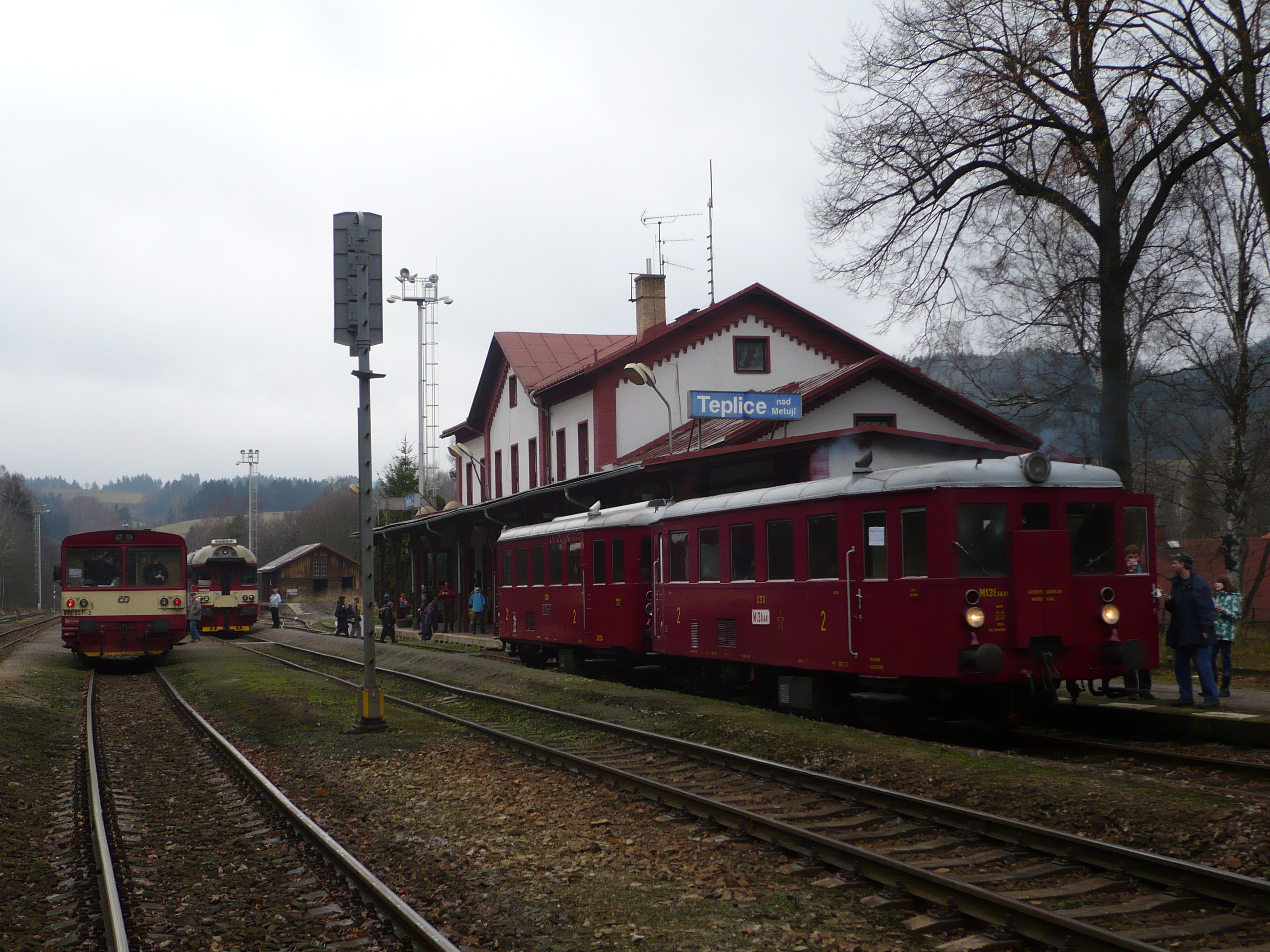 Railway station in Teplice nad Metují